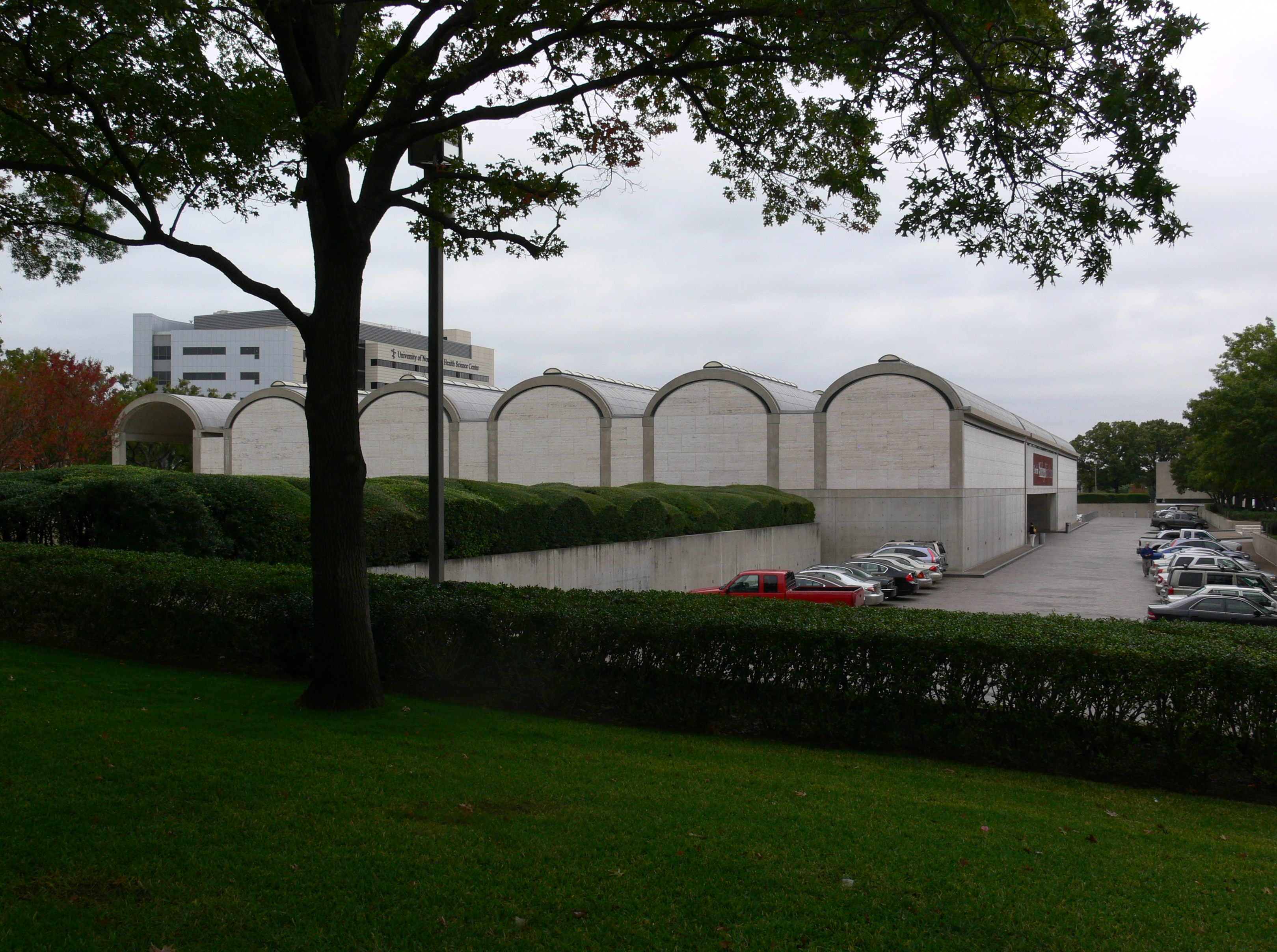 Kimbell Art Museum, Fort Worth, Texas